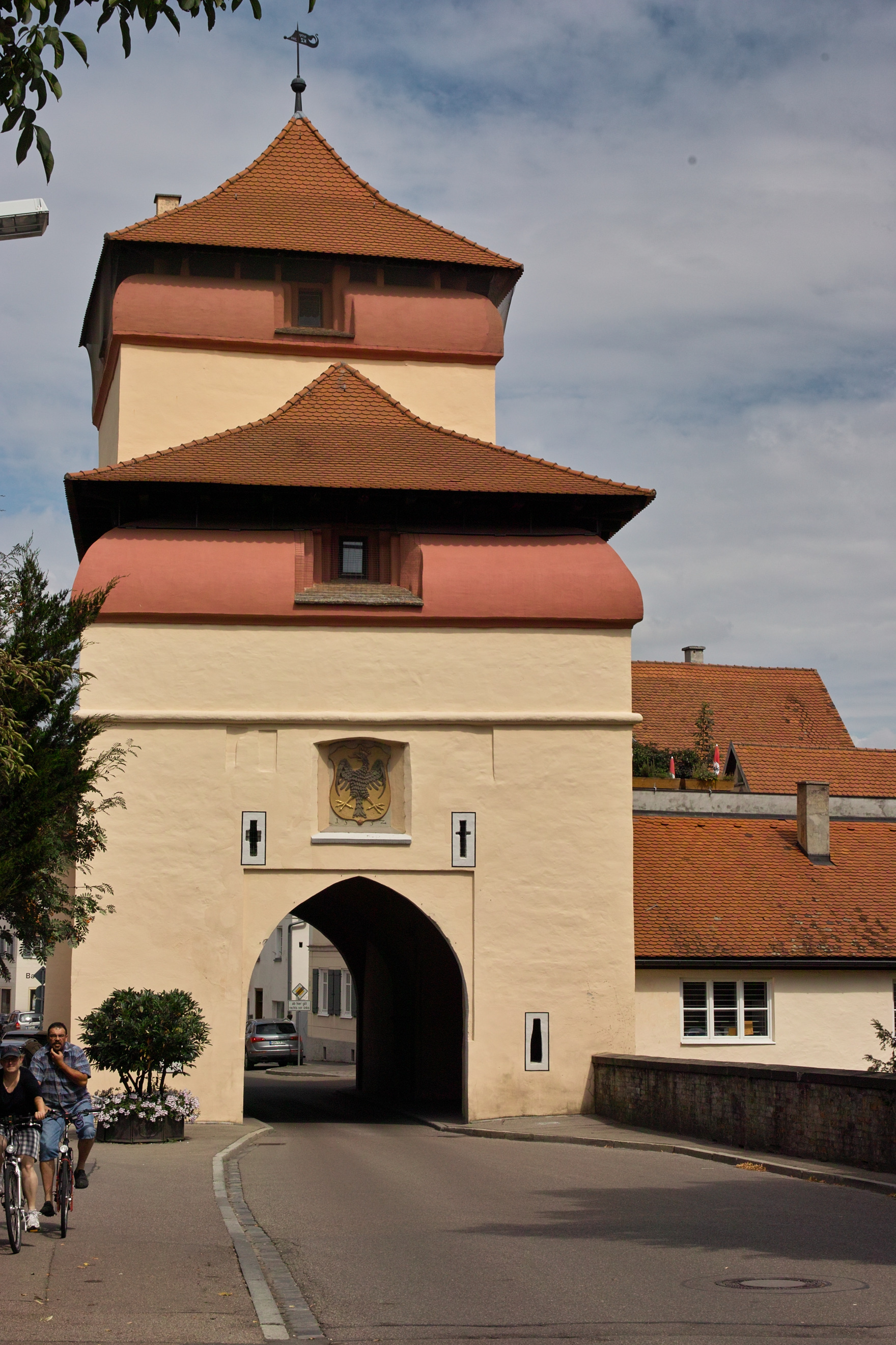 Town of Nördlingen, Berger Tor form outside the wall.